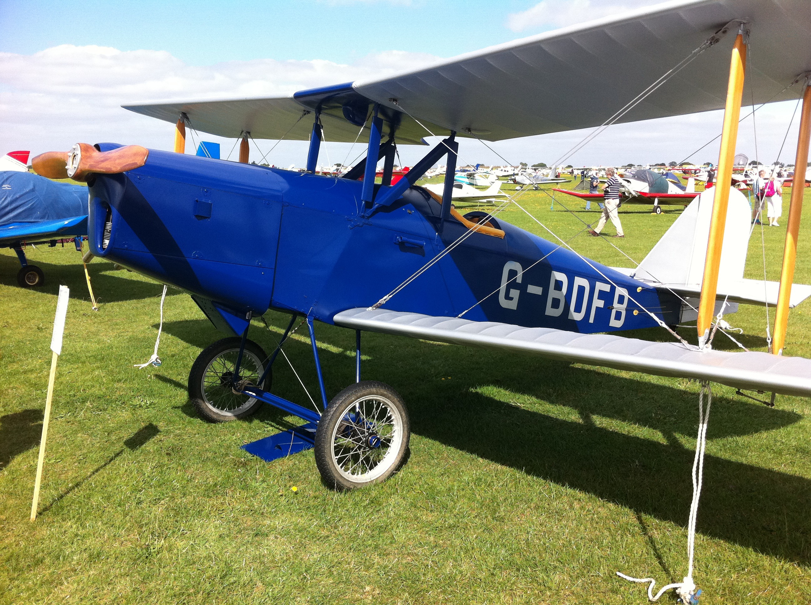 At Sywell Airfield